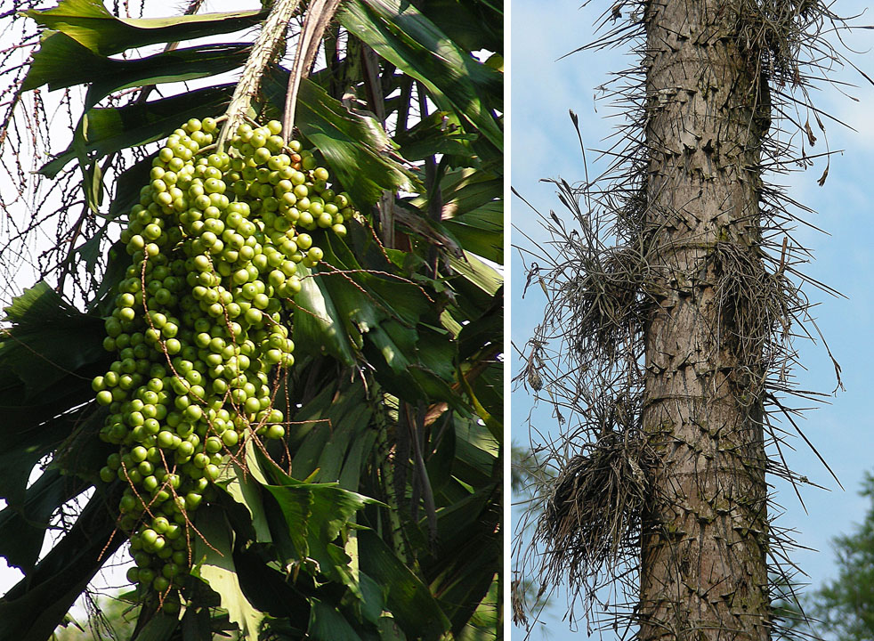 This palm, with black thorns and truncated leaves, is endemic to Colombia. In context at